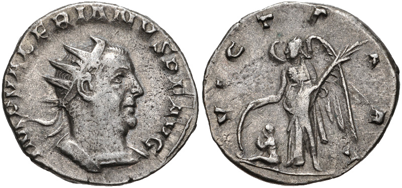 Valerian I. AD 253-260. AR Antoninianus (20mm, 3.20 g, 6h). Viminacium mint. 3rd emission, AD 257-258. Radiate and cuirassed bust right VICT PART, Victory standing left, holding shield and palm; to left, captive seated left, in attitude of mourning. Cf. RIC 262; MIR 847d; cf. RSC 255.